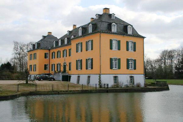 Cultural heritage monument No. 1 in Hückelhoven